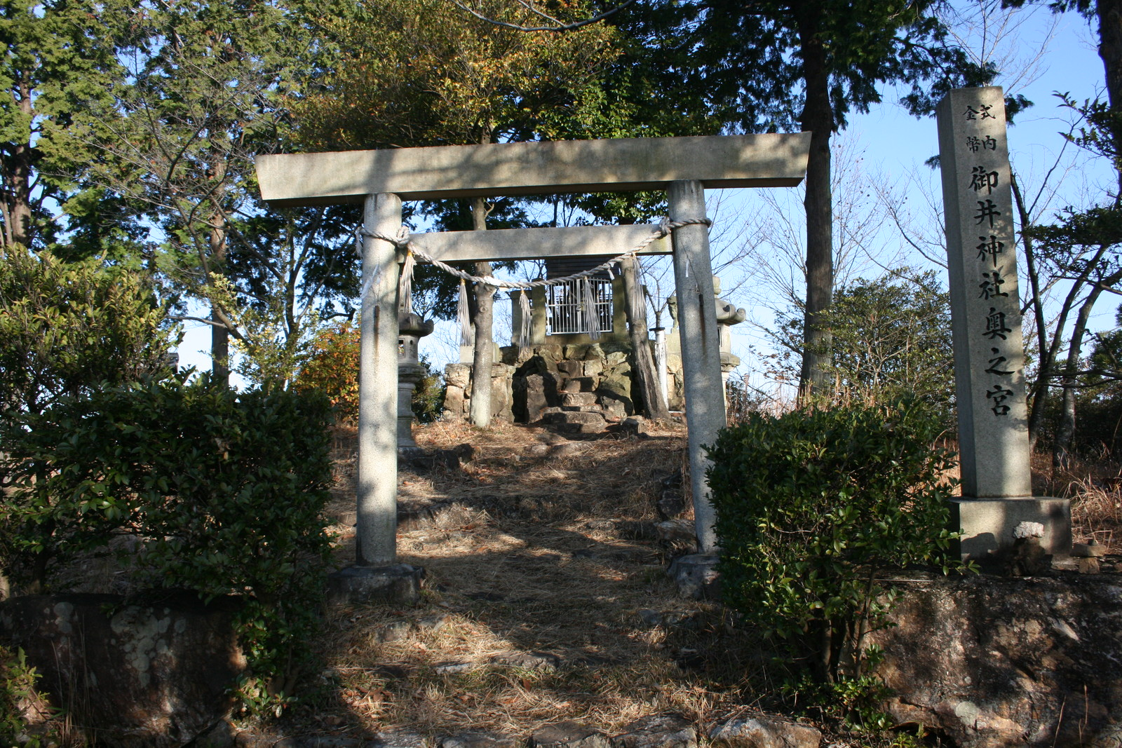 Mii_Shrine_at_Mount_Mii